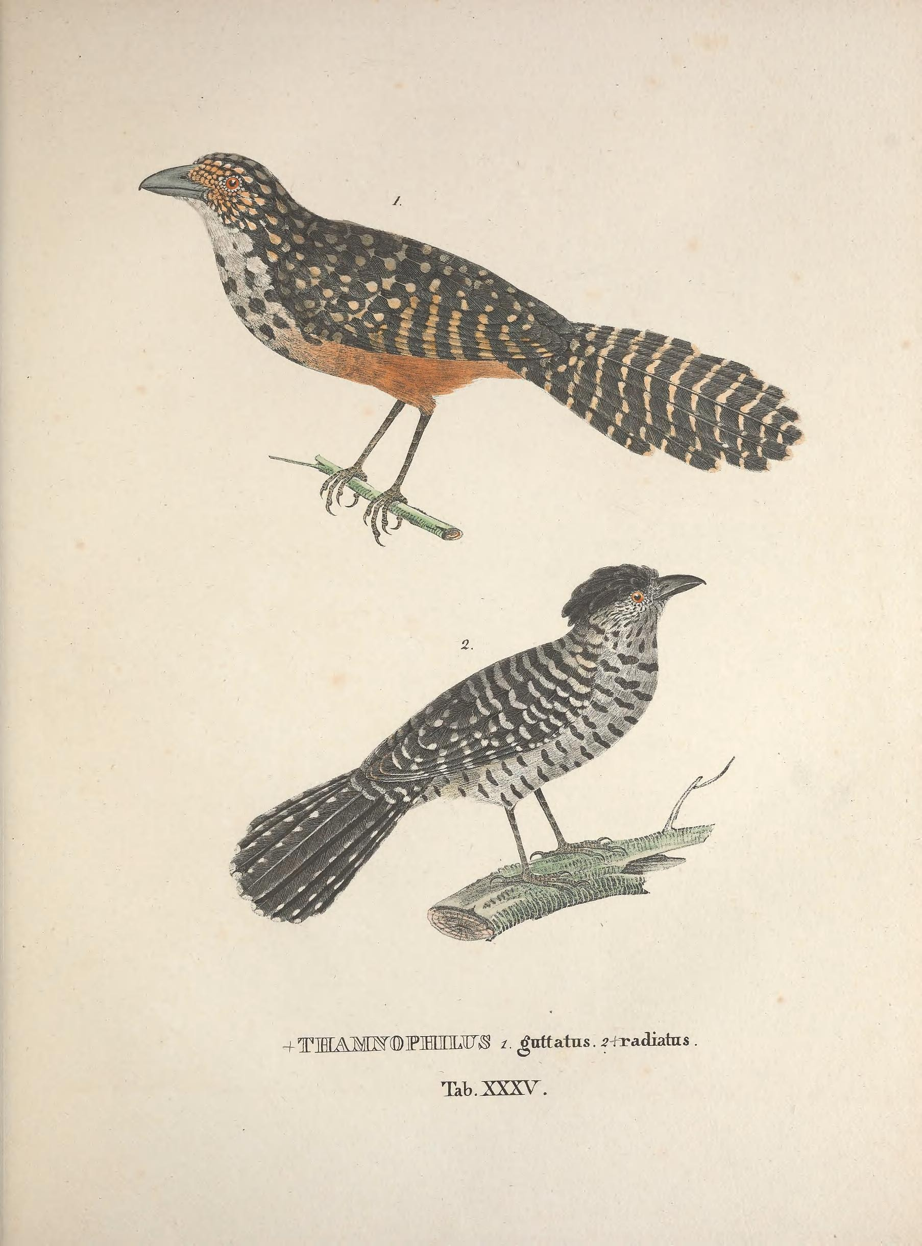 Avium species novae, quas in itinere per Brasiliam annis MDCCCXVII-MDCCCXX /. Monachii :Typis Franc. Seraph. Hübschmanni,1824-1825..